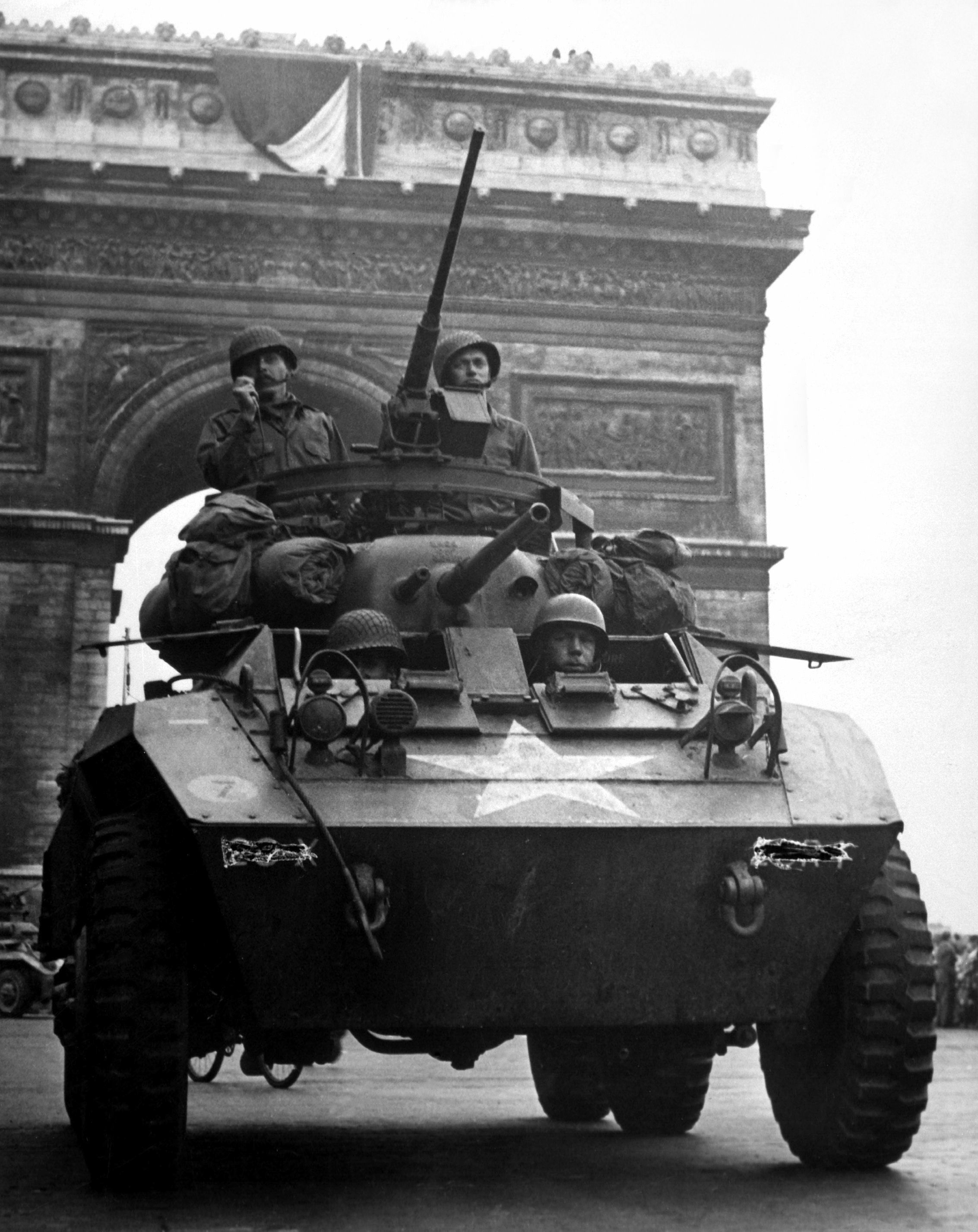 An M-8 "Greyhound" armored scout car of the US Army passes under the Arc de Triomphe after the liberation of Paris in August 1944. The identifying numbers of the vehicle were censored for security reasons, making it difficult to identify the unit. They appear to read "20X 20R-1" or "28X 28R-1", which would indicate a vehicle of the reconnaissance troop of the 20th or 28th Infantry Divisions. However, the image is captioned here as showing a vehicle of Troop B, 102nd Cavalry Reconnaissance Squadron, which was attached to the French 2nd Armored Division. Both the 102nd Cavalry and 20th Infantry were present at the liberation and in the parade that followed on the 29th.